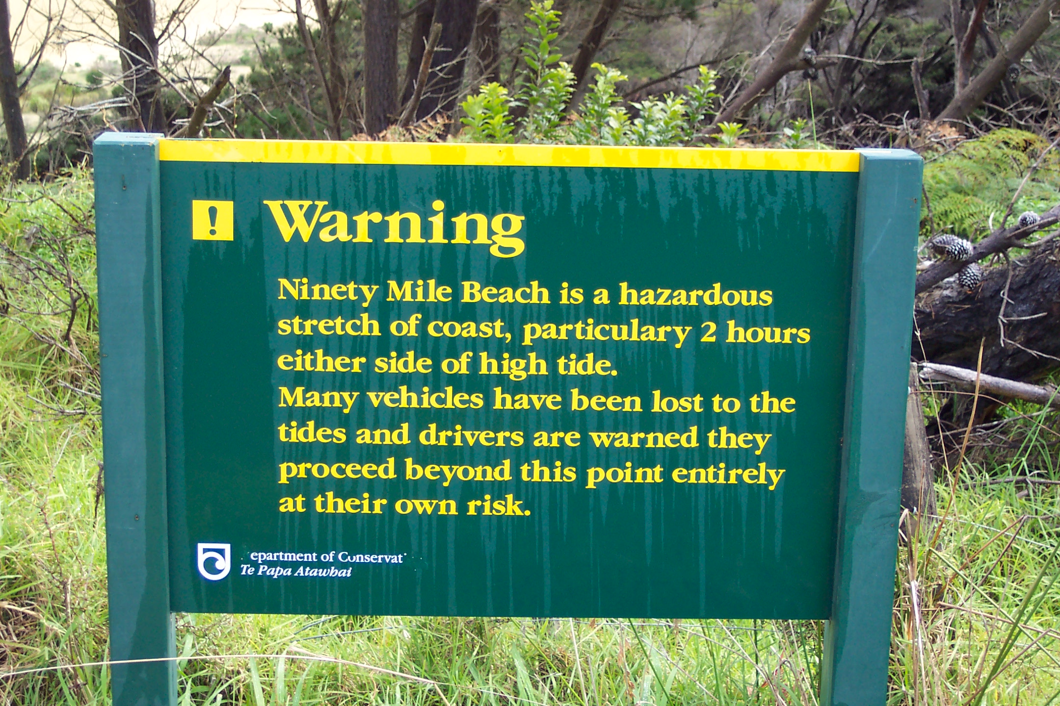 Photo taken by Steffen Hillebrand at the Ninety Mile Beach in Northland, NZ